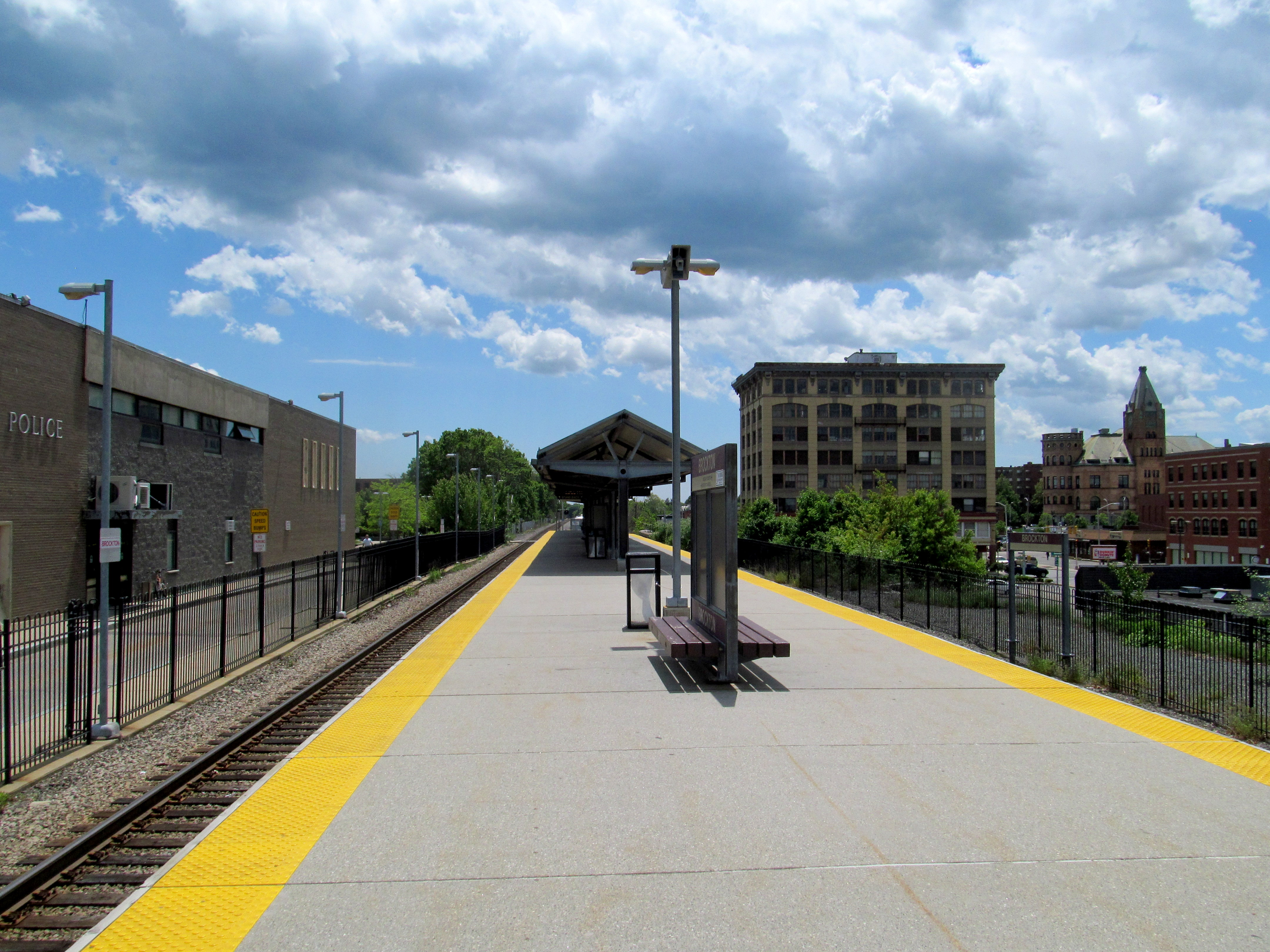 Brockton station platform in June 2017. The police station (built in 1967 on the foundation of the former railroad station) is a left; the Anglim Building is at right.